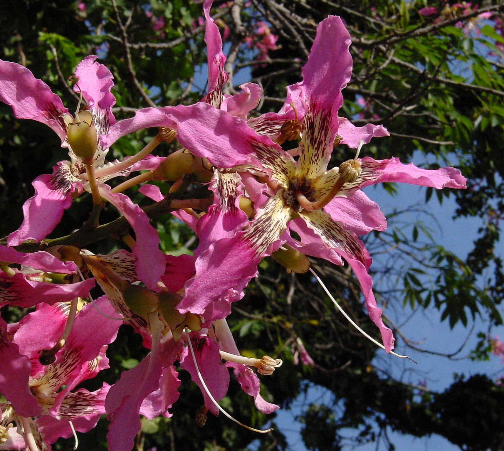 Flowers of Floss silk tree. Photo taken in Madeira.